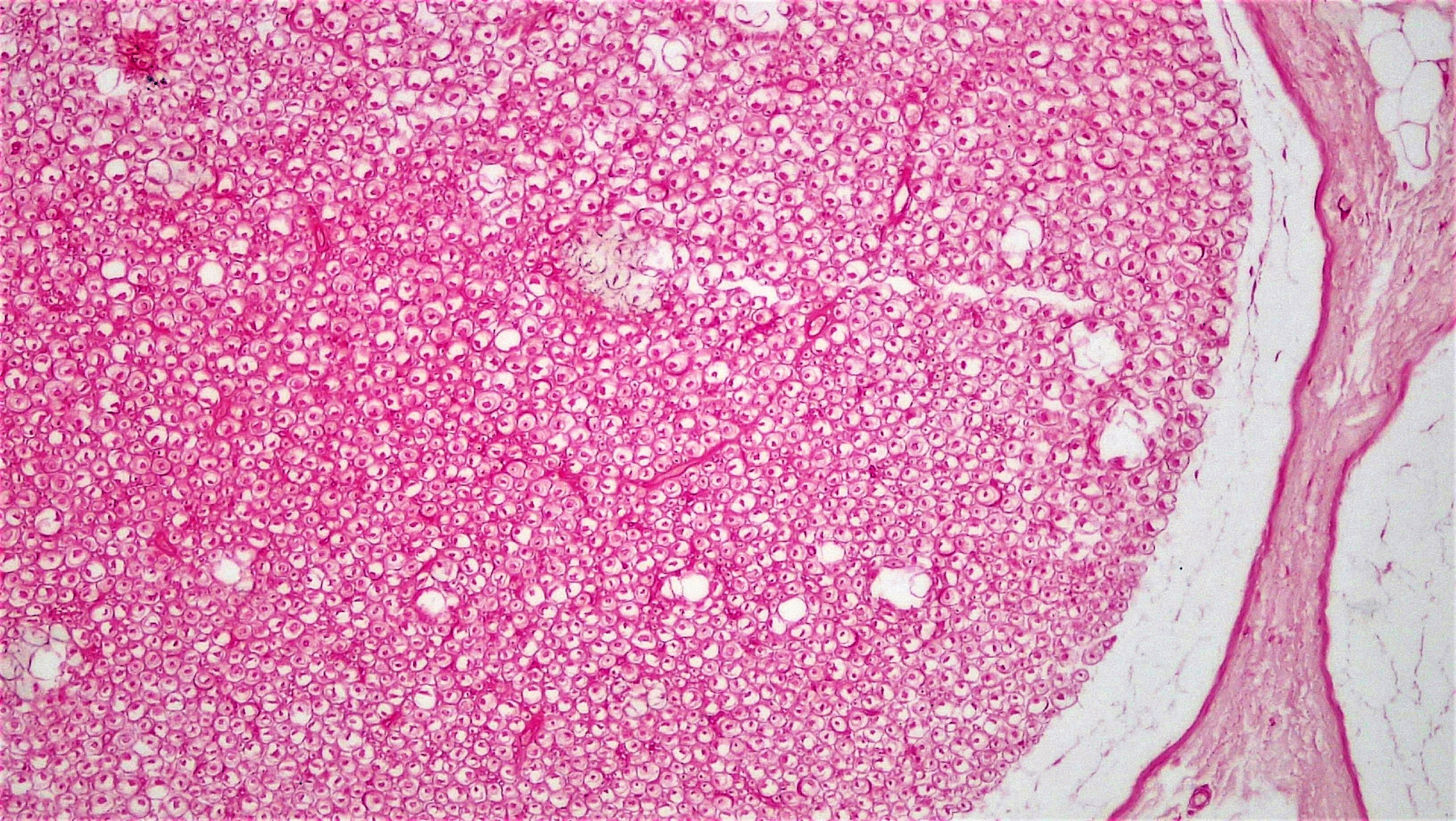 cross section: nerve magnification: 100x